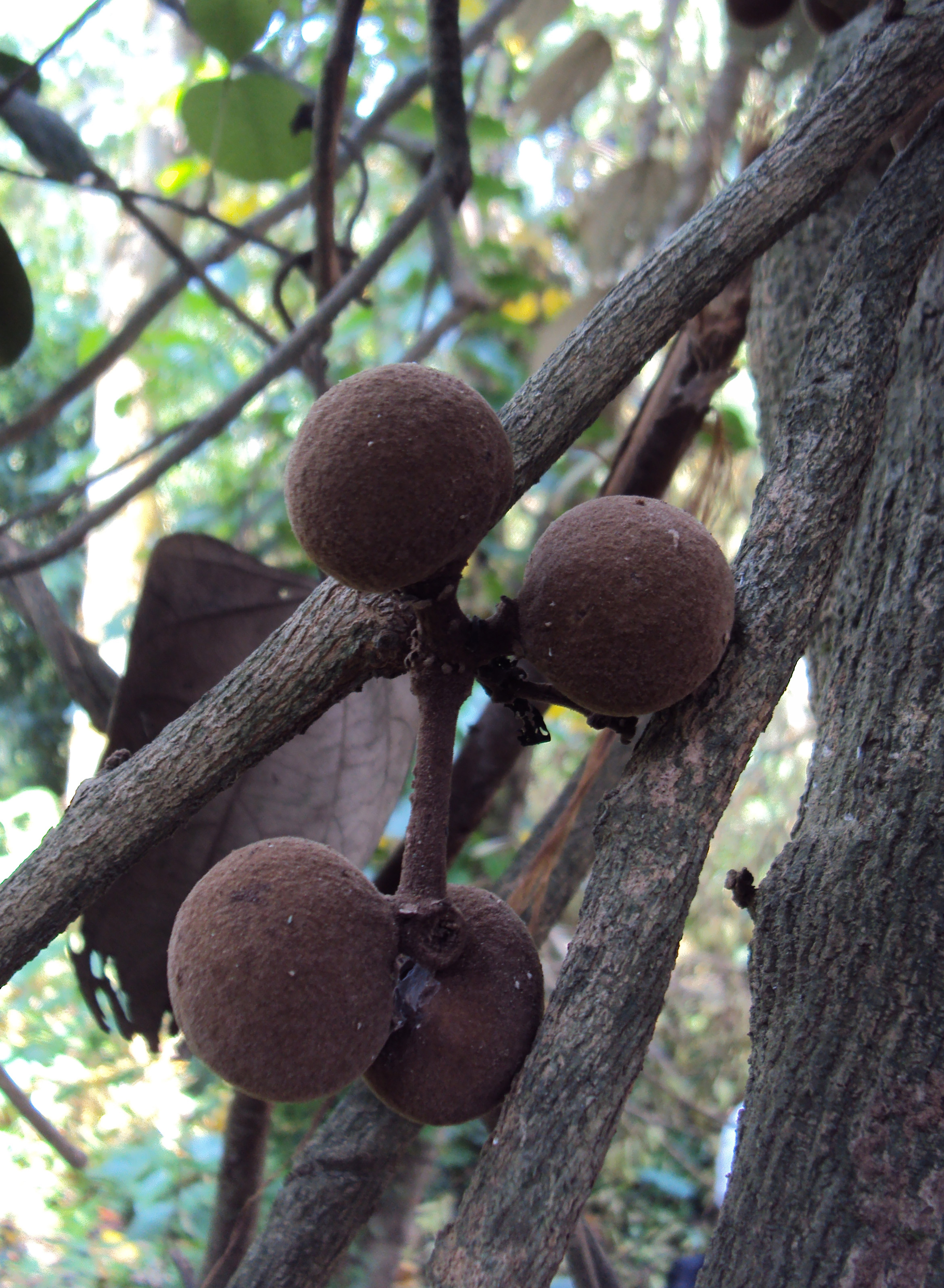 Coscinium Fenestratum